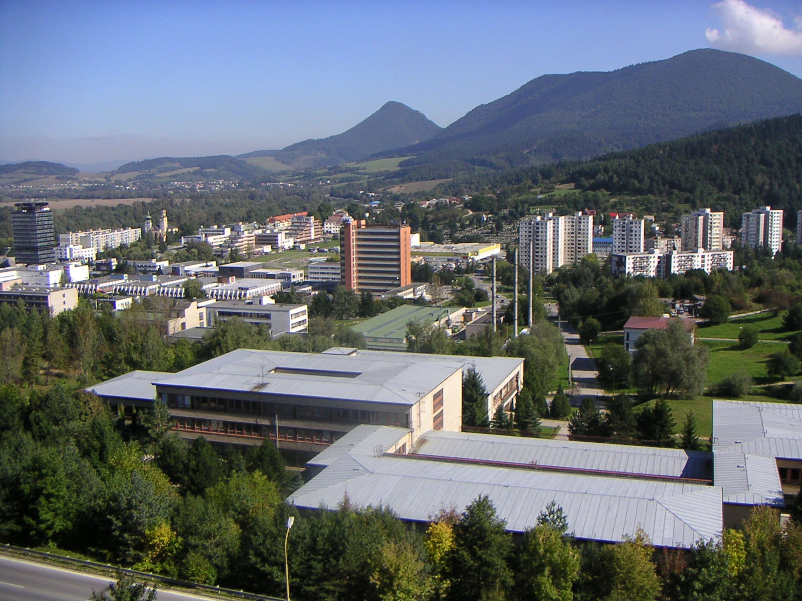 Photo of slovak town Povazska Bystrica